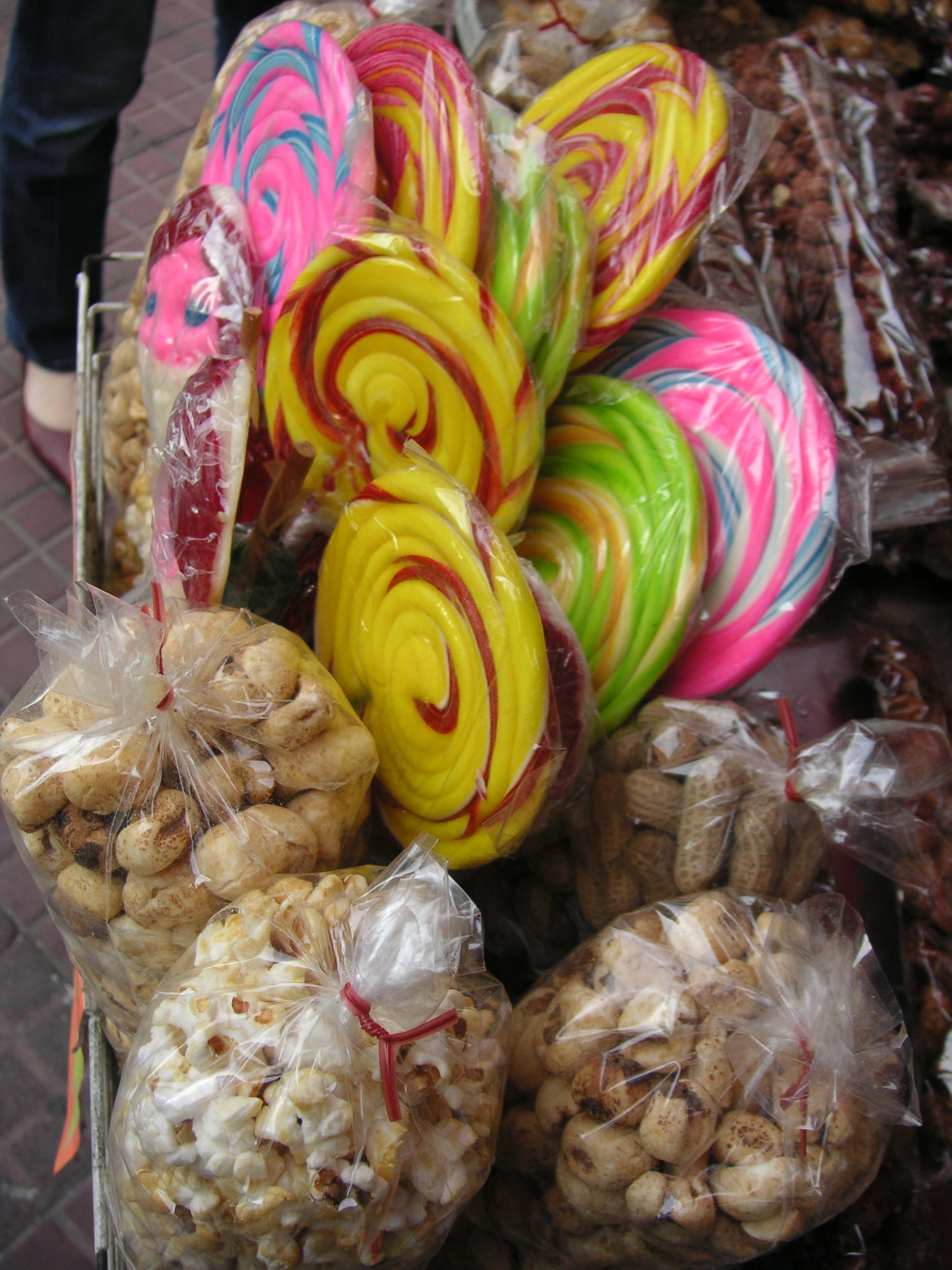 Lollipops.